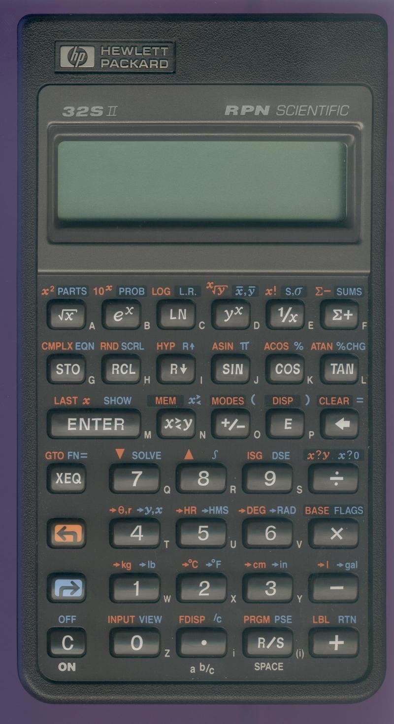 A Hewlett-Packard calculator HP-32SII from 1991.